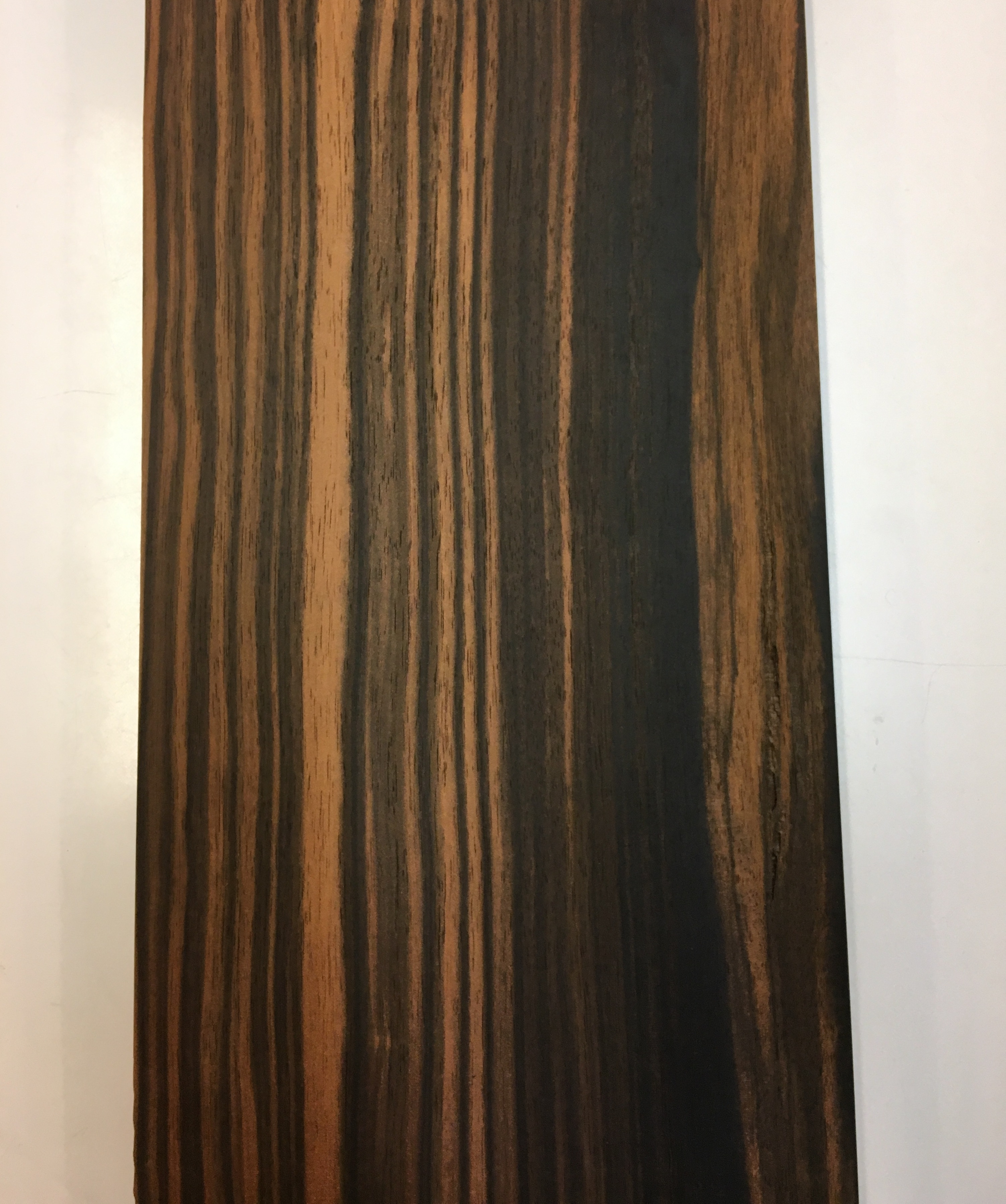 Wood sample Macassar ebony